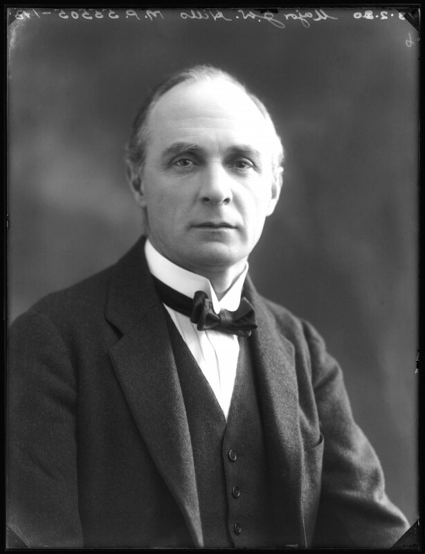 Portrait of John Waller Hills